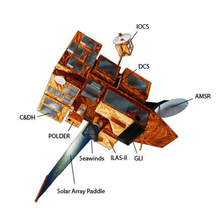 Artist's drawing of the ADEOS II satellite